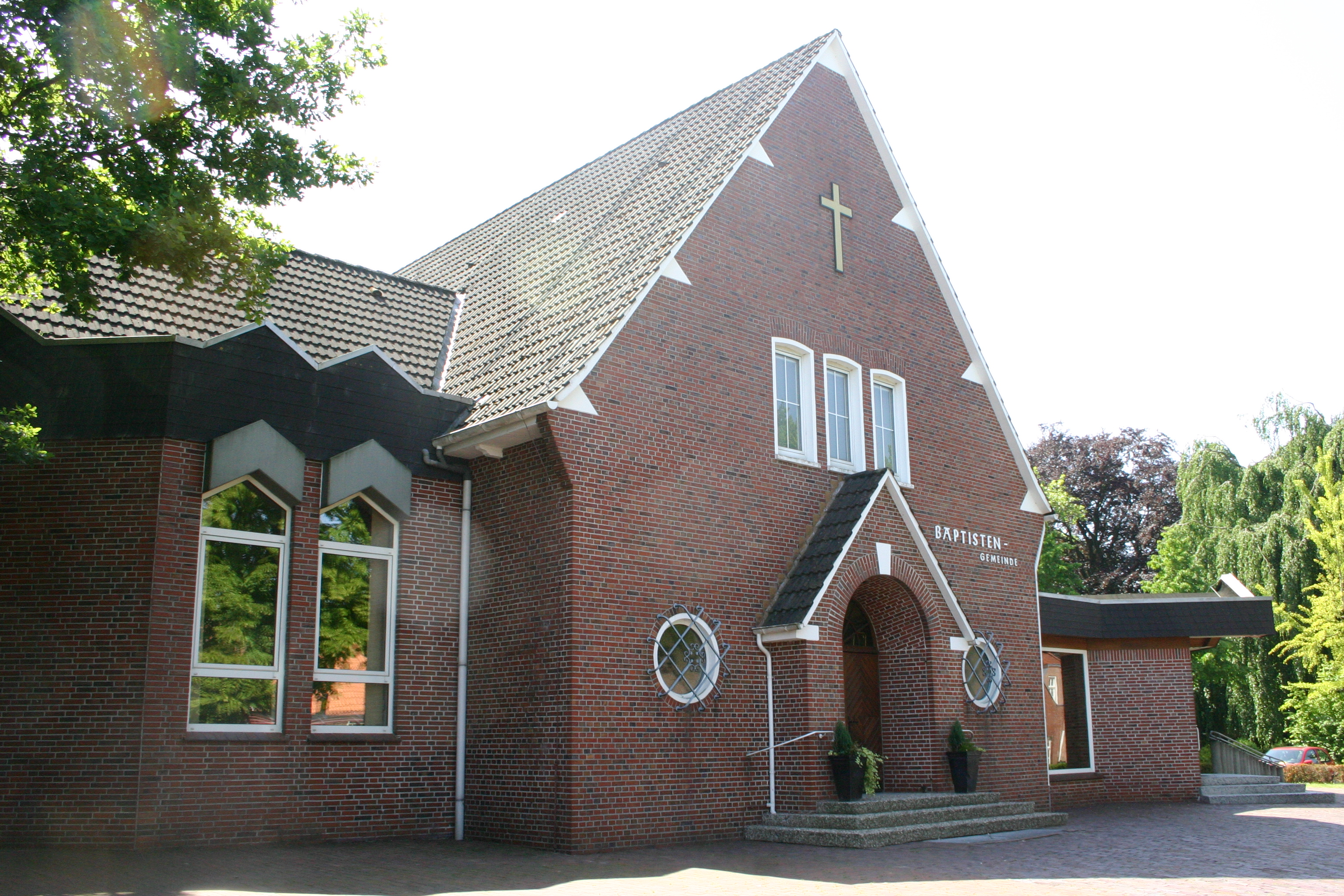 Baptist church in Weener, East Frisia, Germany